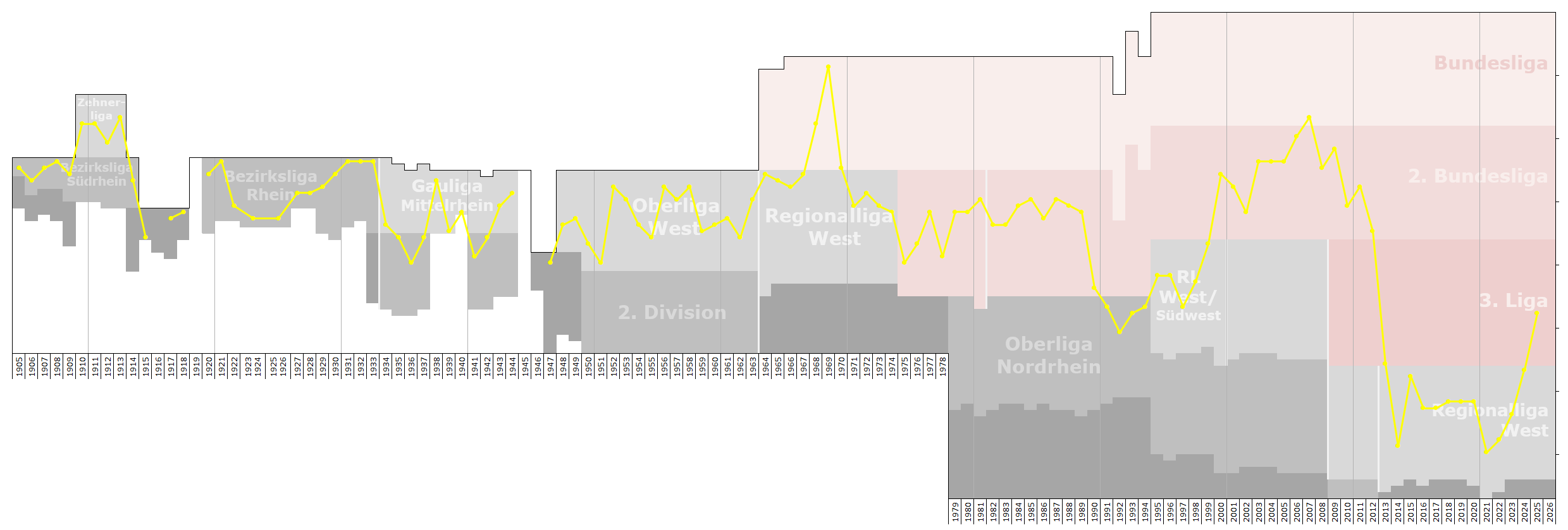 Chart of end-season table positions of Alemannia Aachen in the football league system of Germany. Data source: RSSSF, wikipedia, f-archiv.de, fussball.de